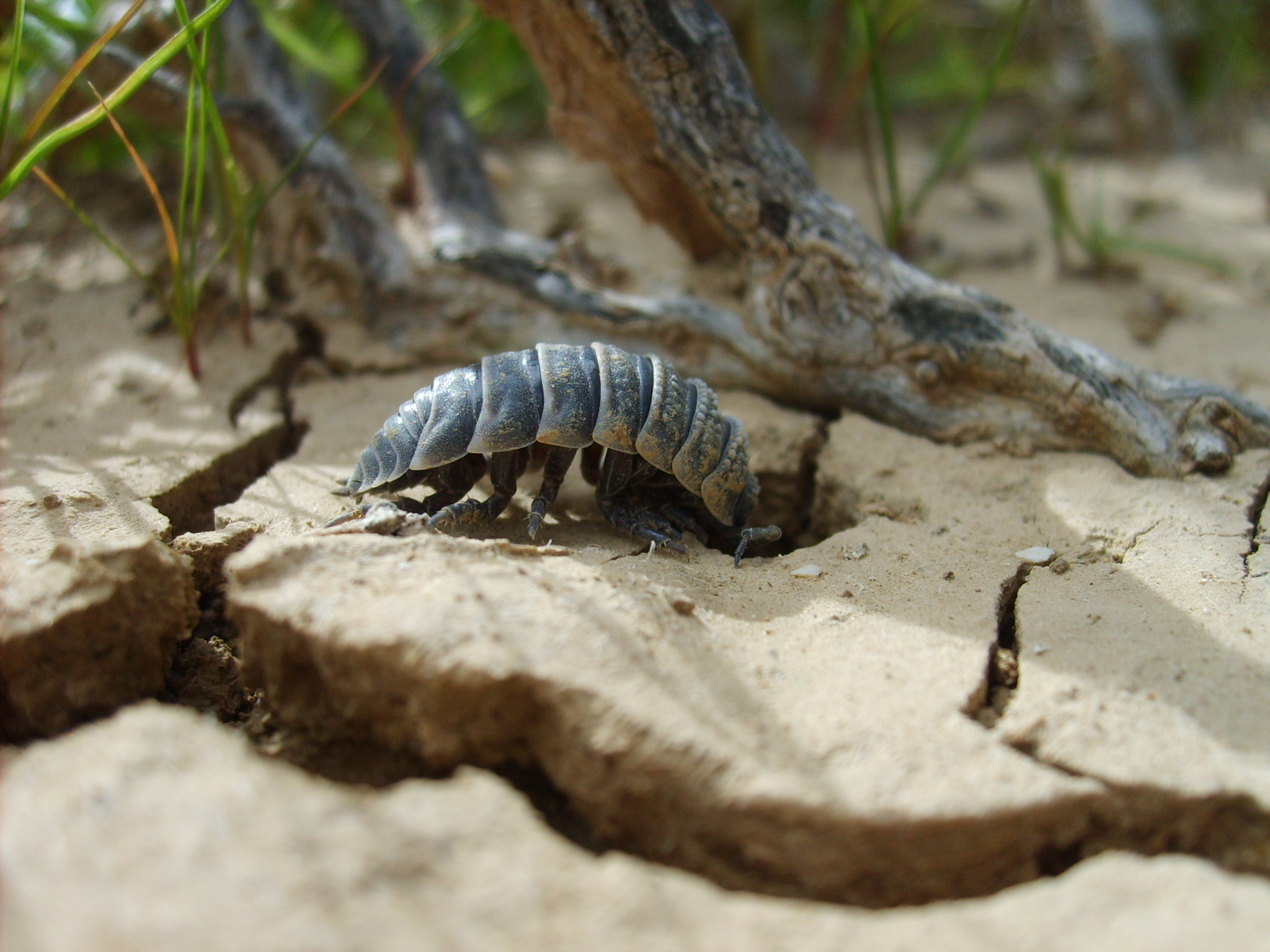 A desert isopod Hemilepistus reaumuri enters one of the burrows which they dig as shelters.